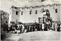 Buildings of the Catholicosate of Cilicia in Sis.